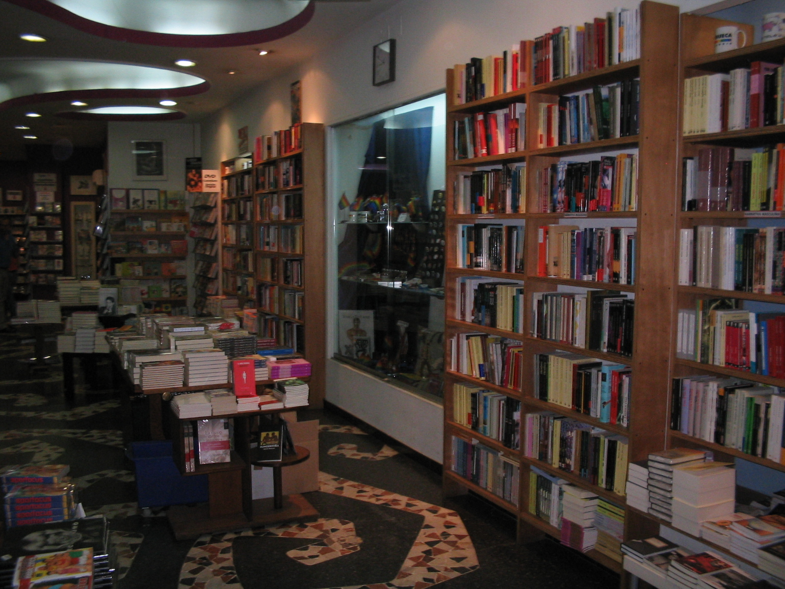 Inside of Berkana, LGBT-related book shop in Madrid, Spain.